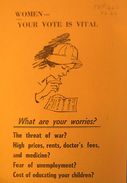 Flyer from Sydney, 1963, urging women to vote on certain issues. U6.62, FVF440, Fryer Library, University of Queensland.